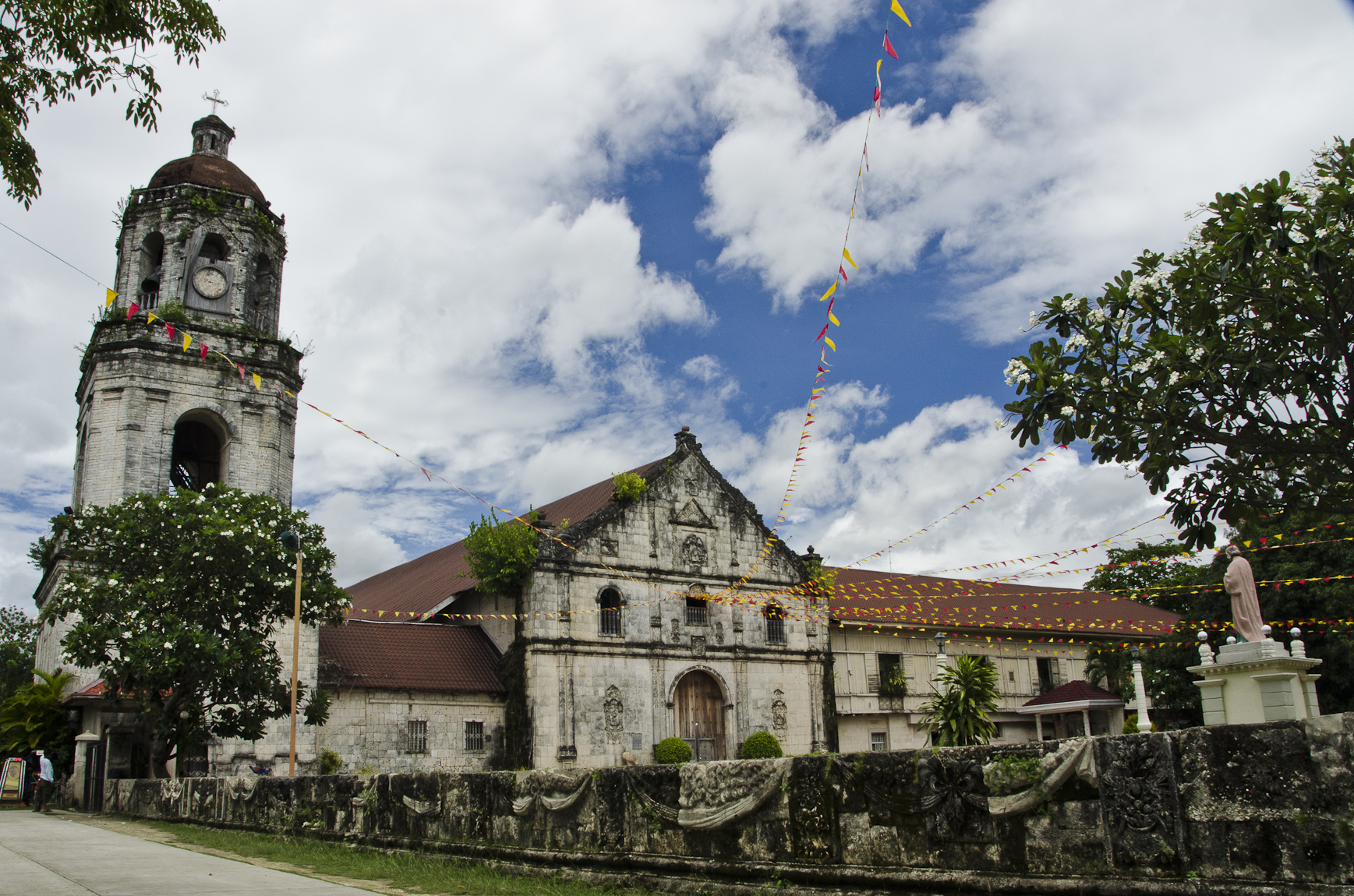 Church of San Miguel Arcangel of Argao It is the second oldest church of the Cebu and one of the oldest in the country.